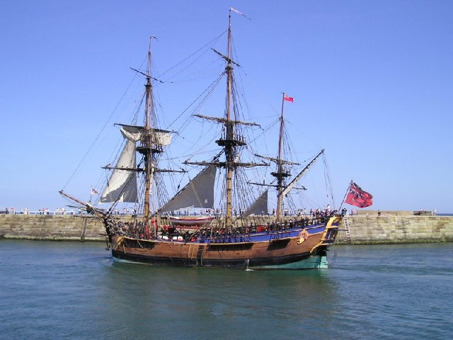 Captain Cook's Boat "Endeavour" The Endeavour leaving Whitby Harbour.